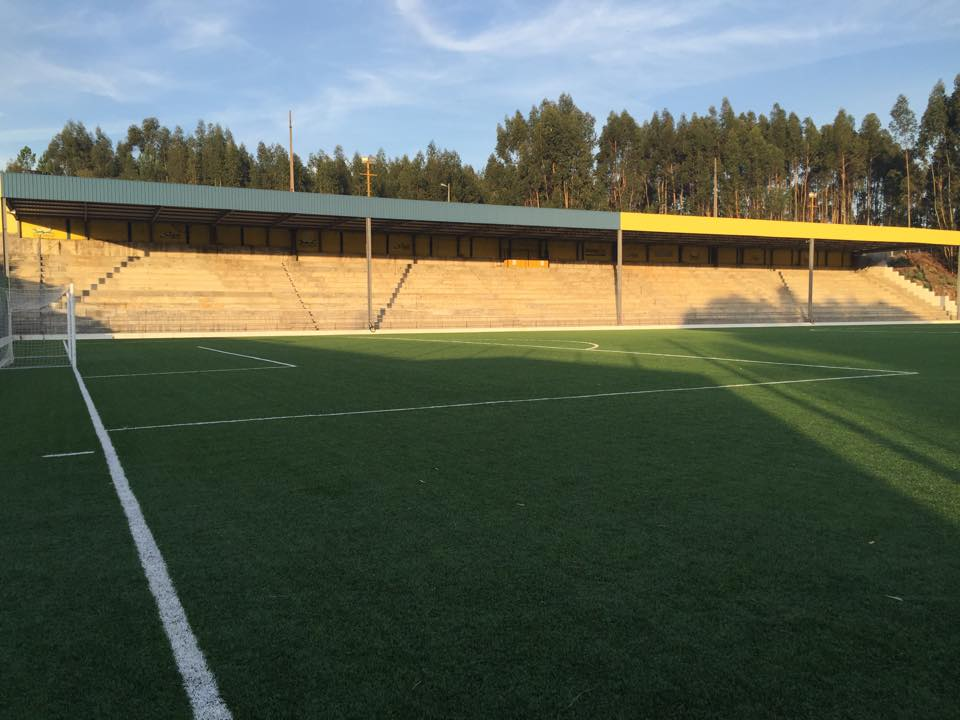 Canedo FC' stadium.